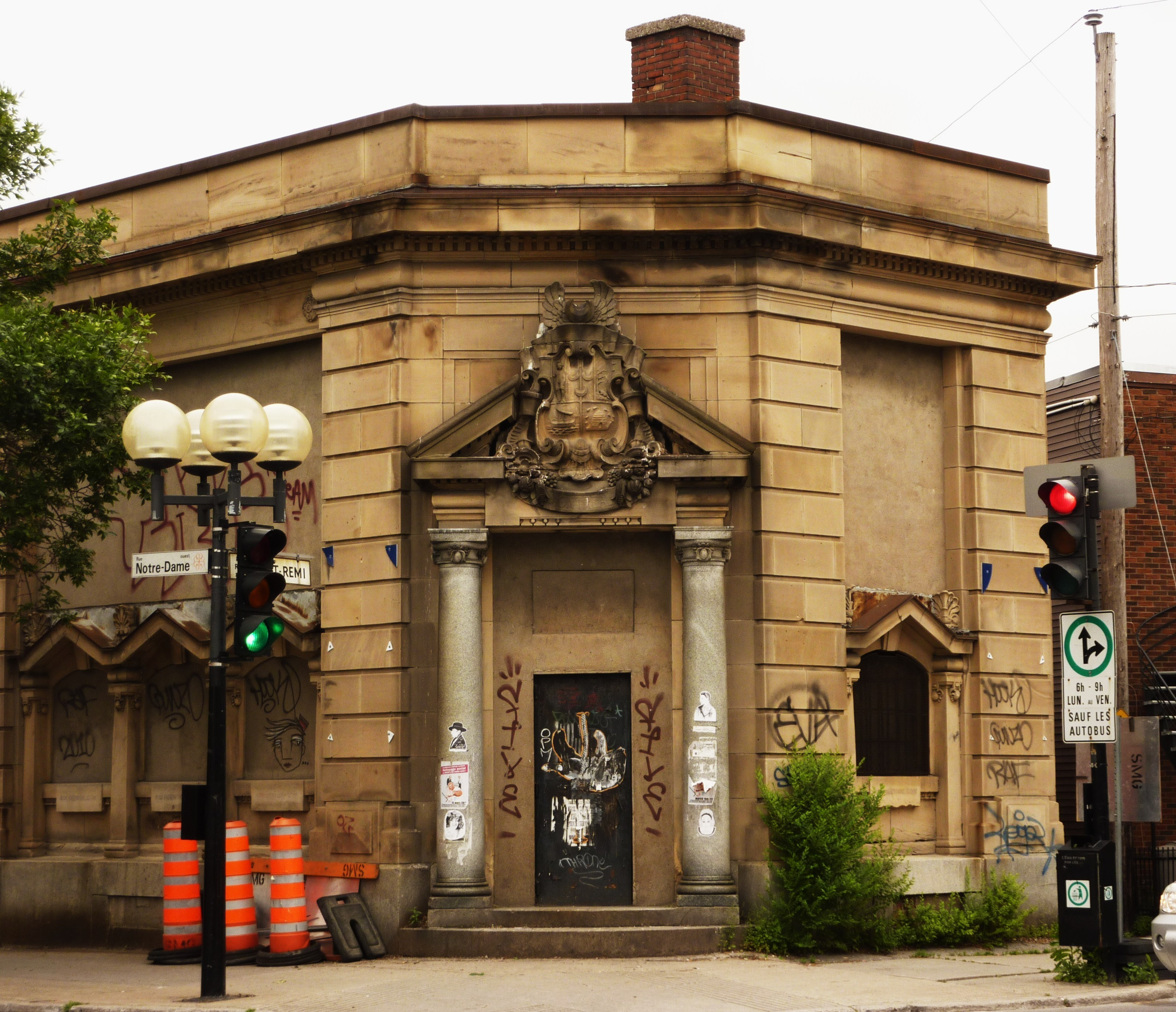 Vacant former Molson Bank branch, constructed in 1905, at the corner of Saint-Rémi and Notre-Dame in Montreal, Quebec, Canada.